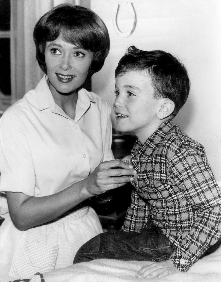 Photo of Christine White as Abigail Adams and Jimmy Mathers as Benjie Major from the television comedy Ichabod and Me. This episode is "Benjie's Spots".